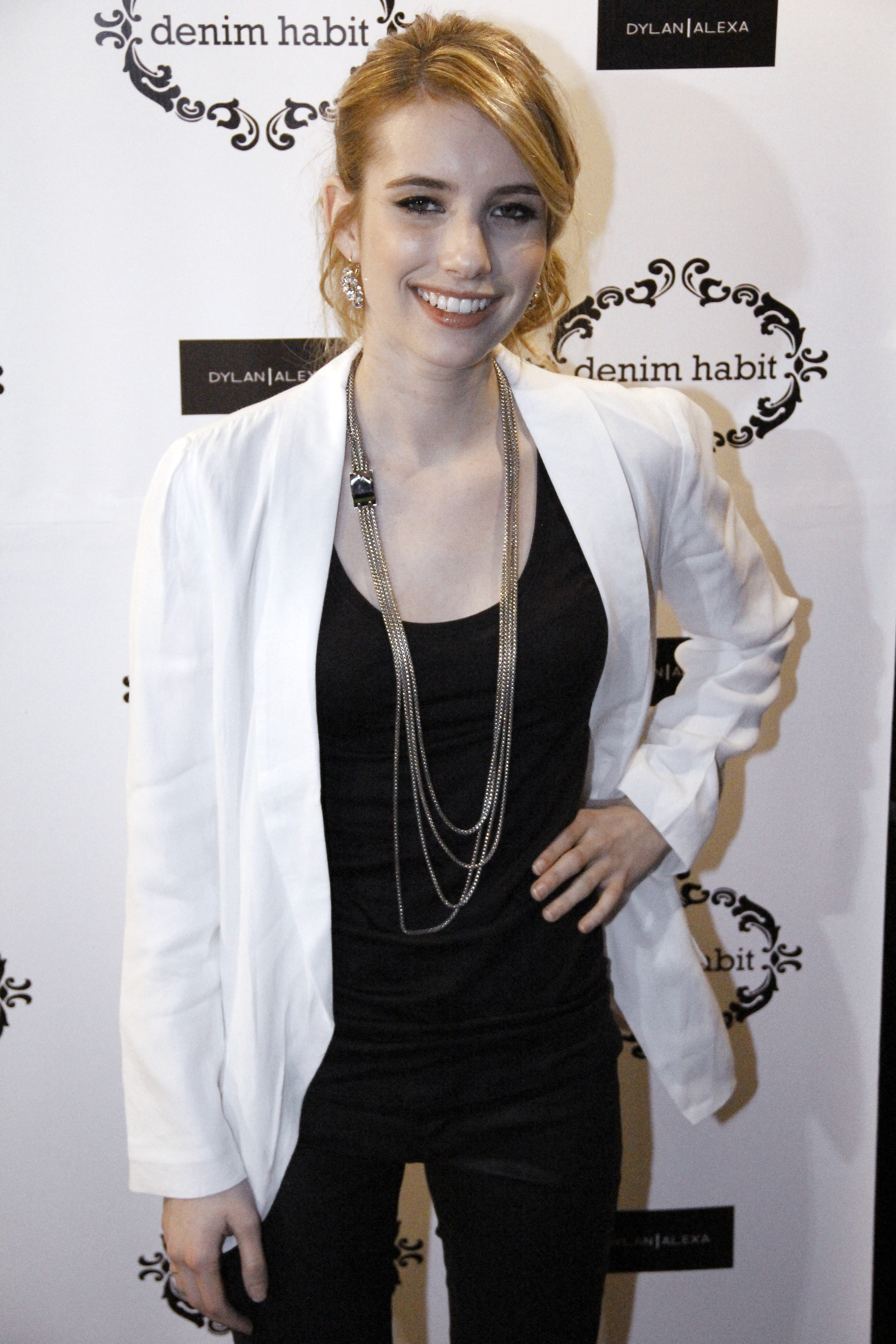 Denim Habit Store Opening October 19th 2011 Chelsea, New York